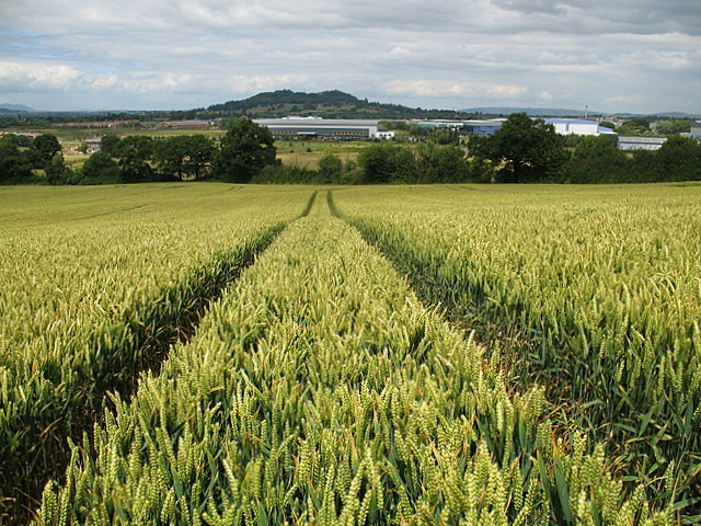 Through the wheat A view almost due north from a footpath through a wheat field. Churchdown Hill is on the skyline, and Gloucester Business park can be seen through the trees.